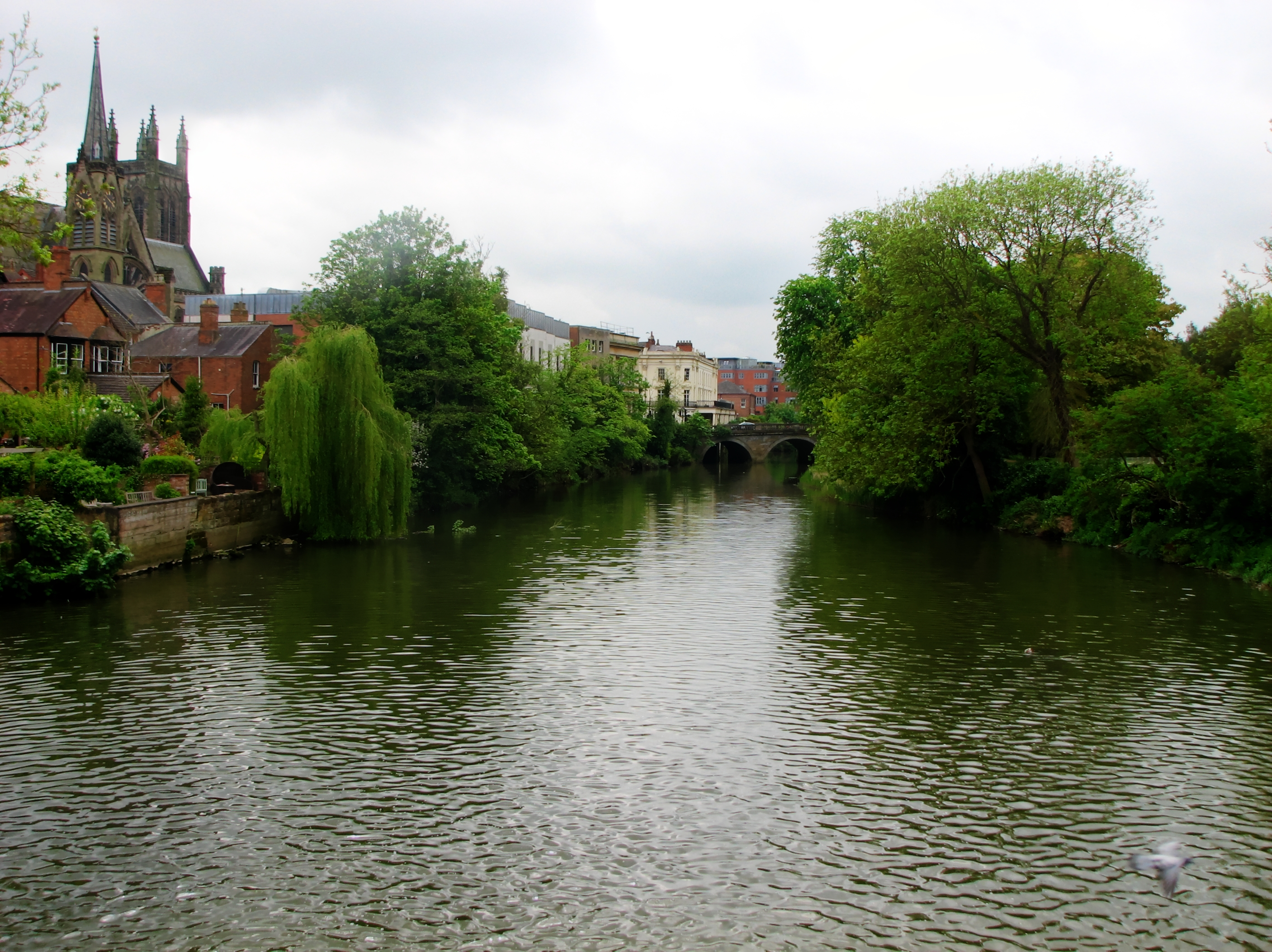 Refer to for license terms of this work